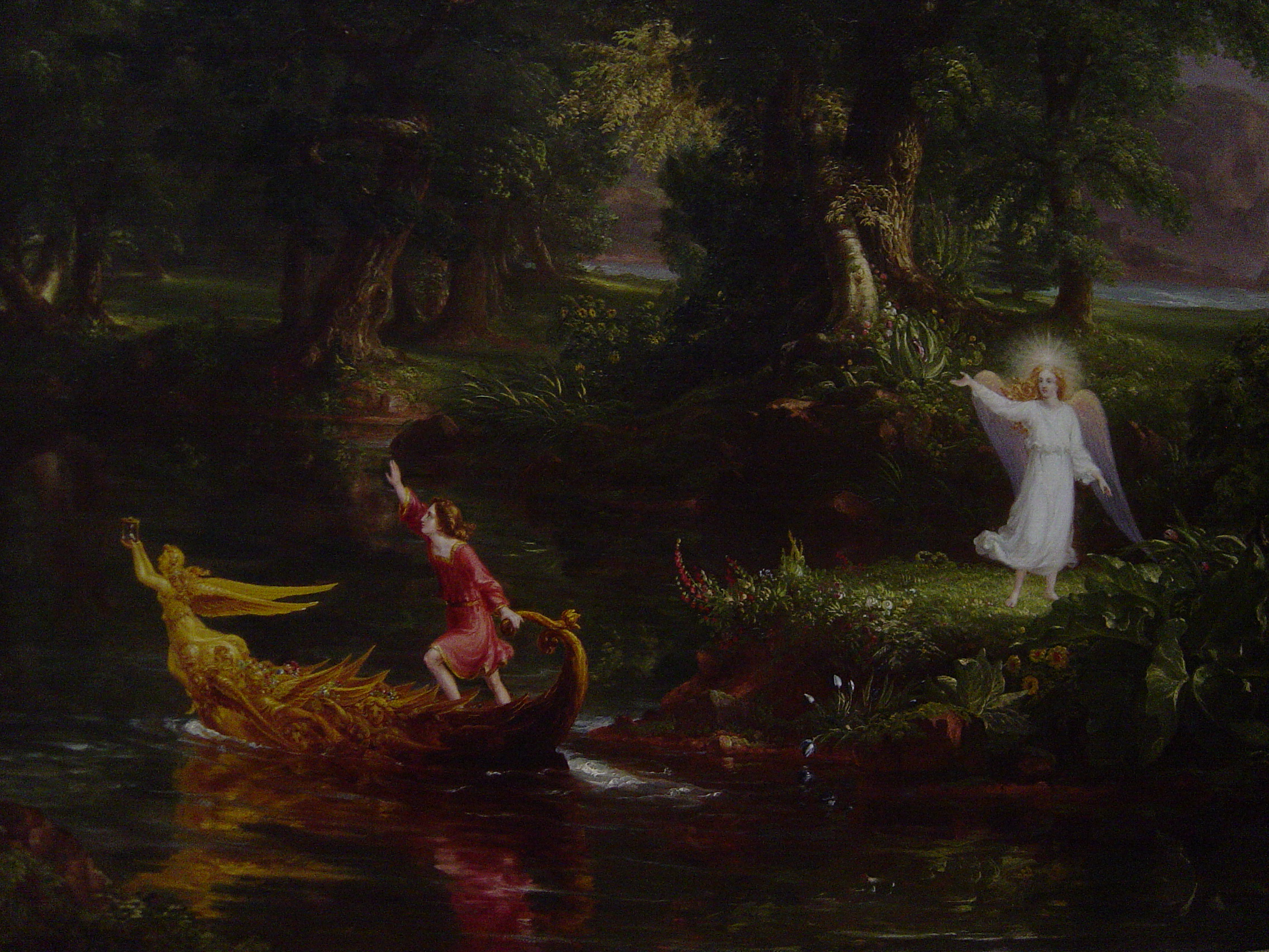 The Voyage of Life, Youth (detail)